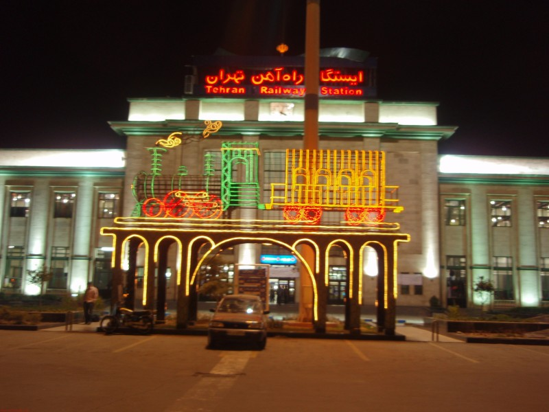 Tehran Railway Station, Iran, Tahran